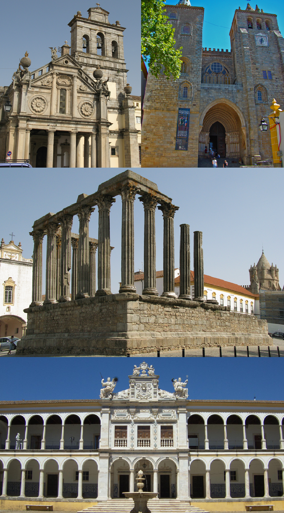 montage of Evora